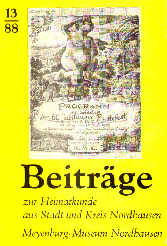 Cover